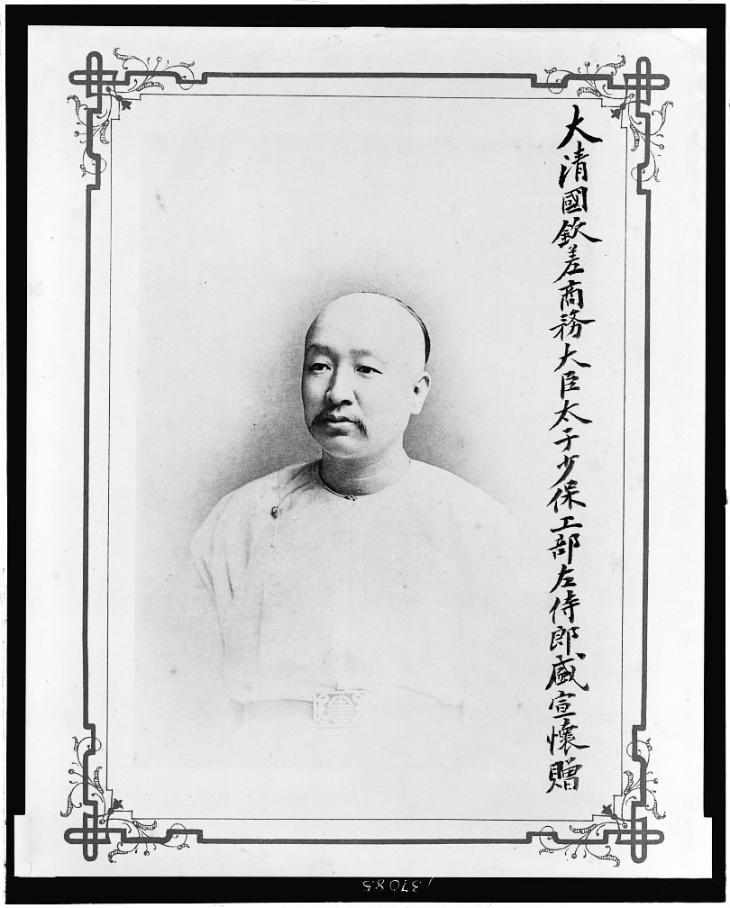 Sheng Xuanhuai